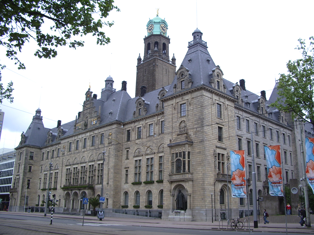 Townhall of Rotterdam